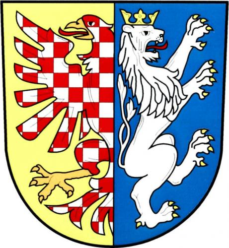 Coats of arms of Velká Bíteš